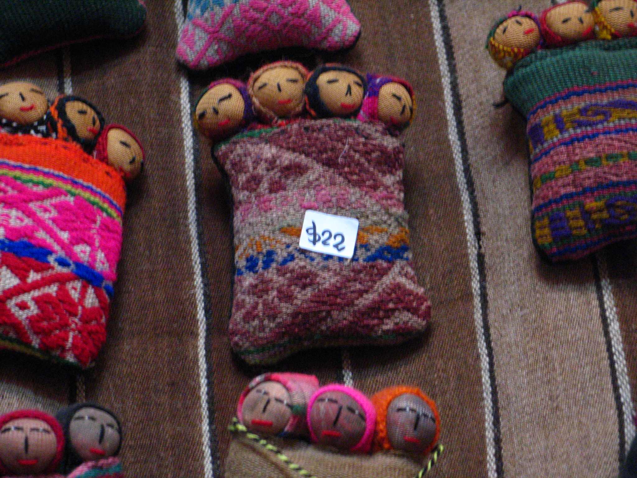 Craft of Salta, Argentina